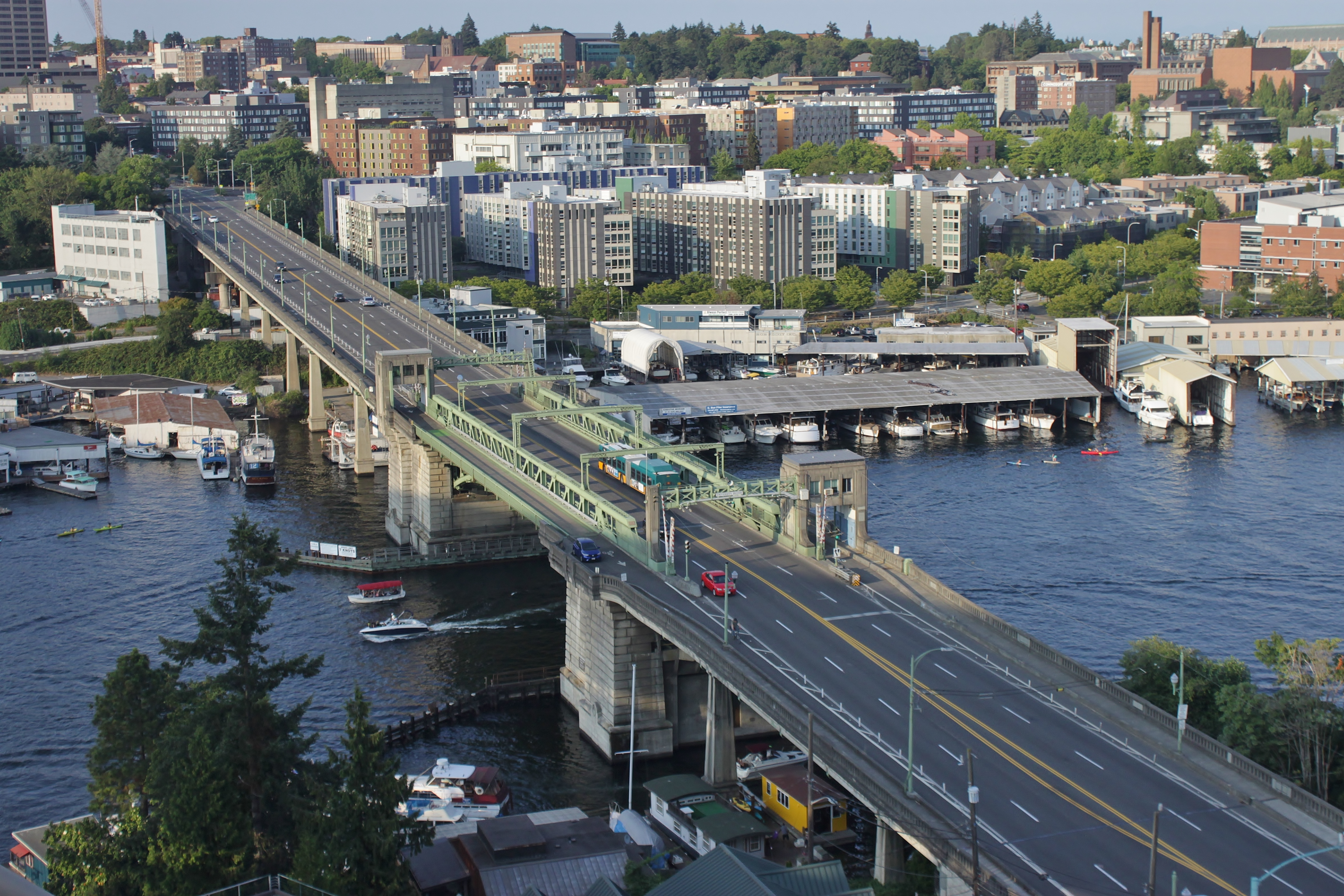 Looking northeast at the University Bridge from the taller Ship Canal Bridge, both of which cross the Lake Washington Ship Canal in Seattle, Washington, United States.